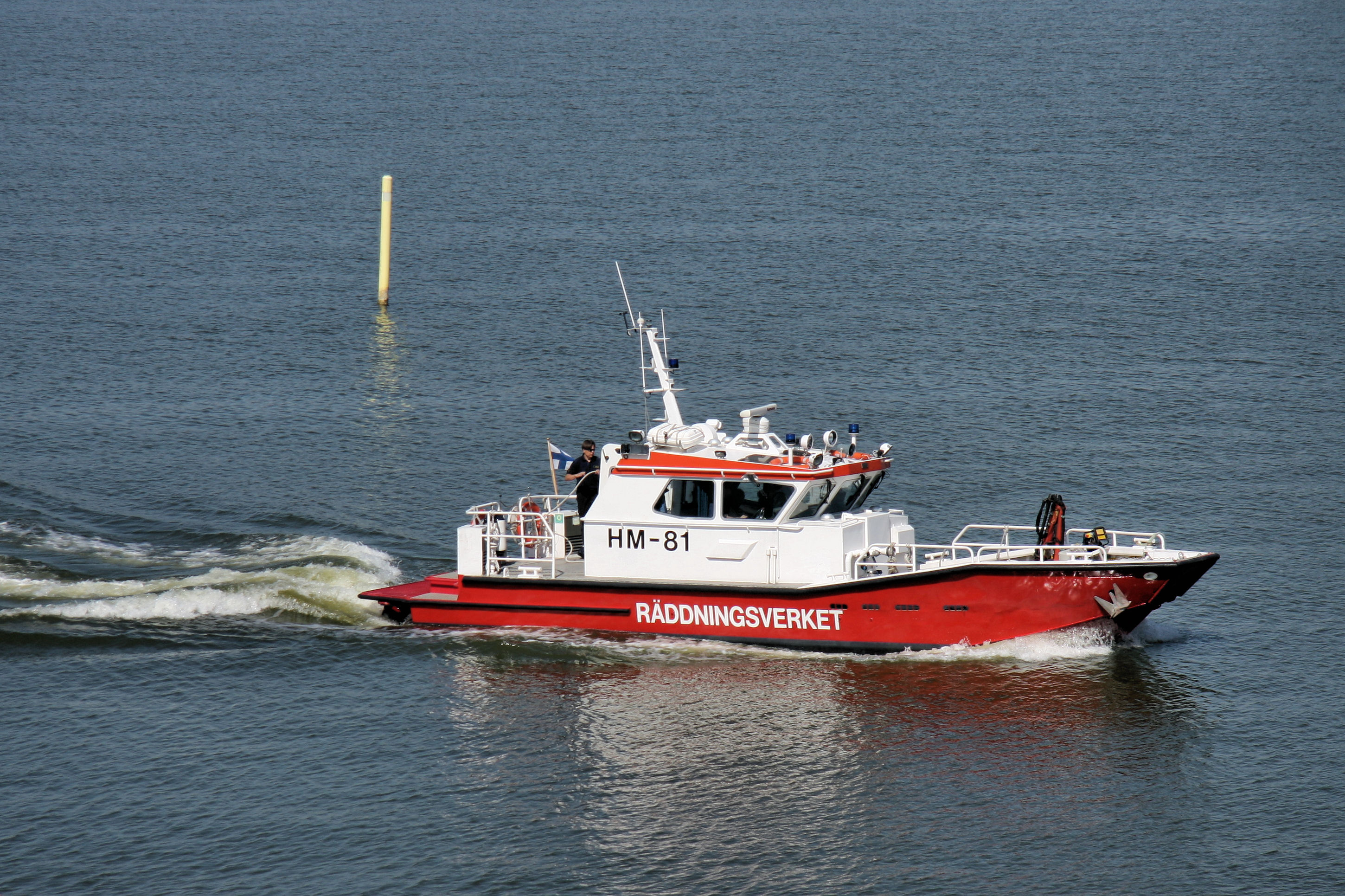 A vessel of the City of Helsinki Rescue Department.